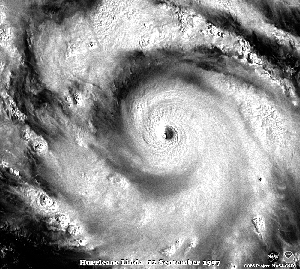 Hurricane Linda, full-resolution at midday.